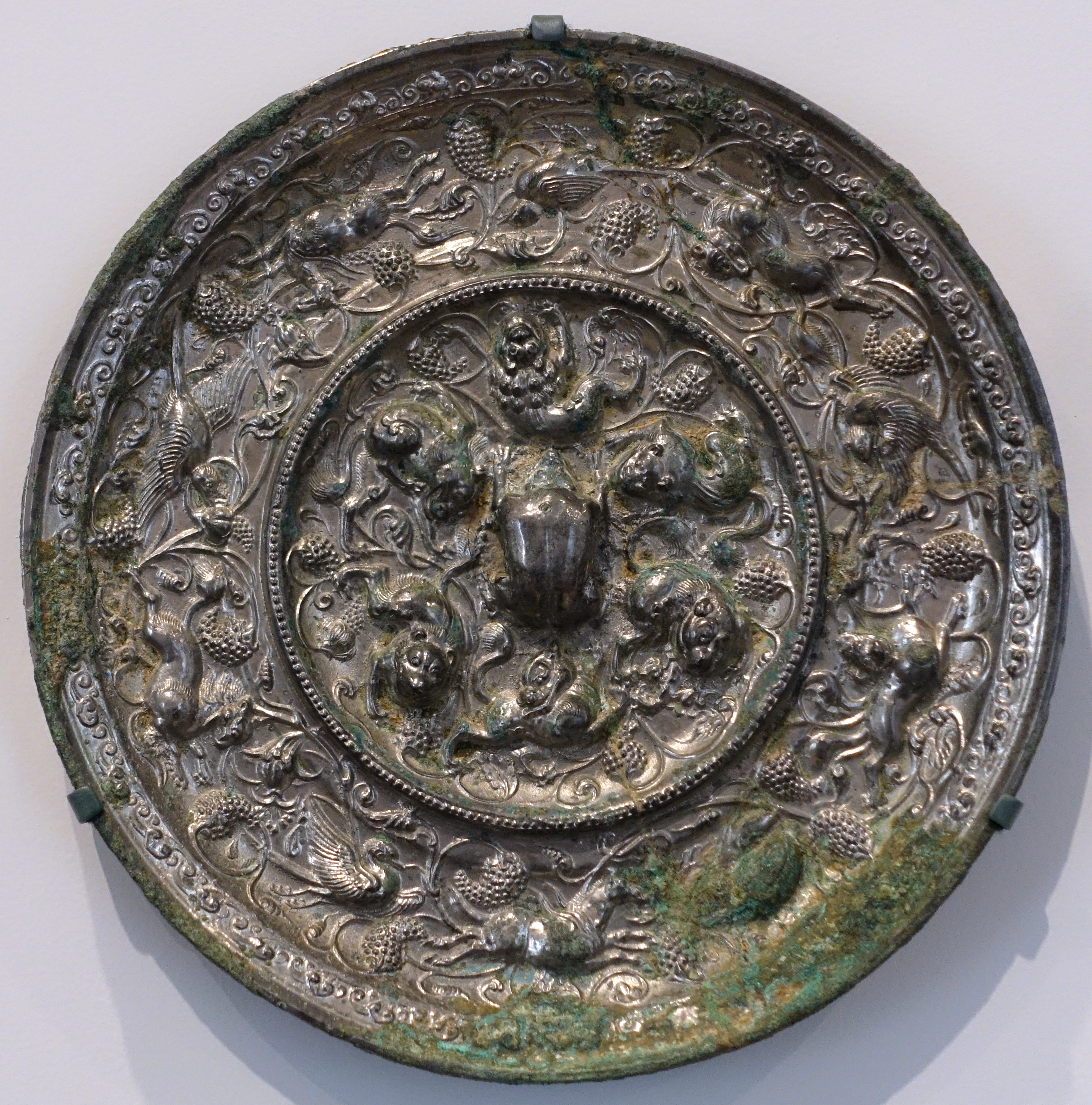 Exhibit in the Arthur M. Sackler Museum, Harvard University, Cambridge, Massachusetts, USA. This artwork is in the public domain because the artist died more than 70 years ago.